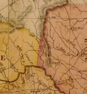 Based on 1833 map of North Carolina by Brazier, Robert H. B. Shows areas of Iredell, Wilkes, and Surry counties that would become Alexander County in 1847. Major rivers and towns are shown. Created / Published: Fayetteville, N.C. : Published under the patronage of the legislature by John Mac Rae ; Philadelphia : H.S. Tanner, 1833.